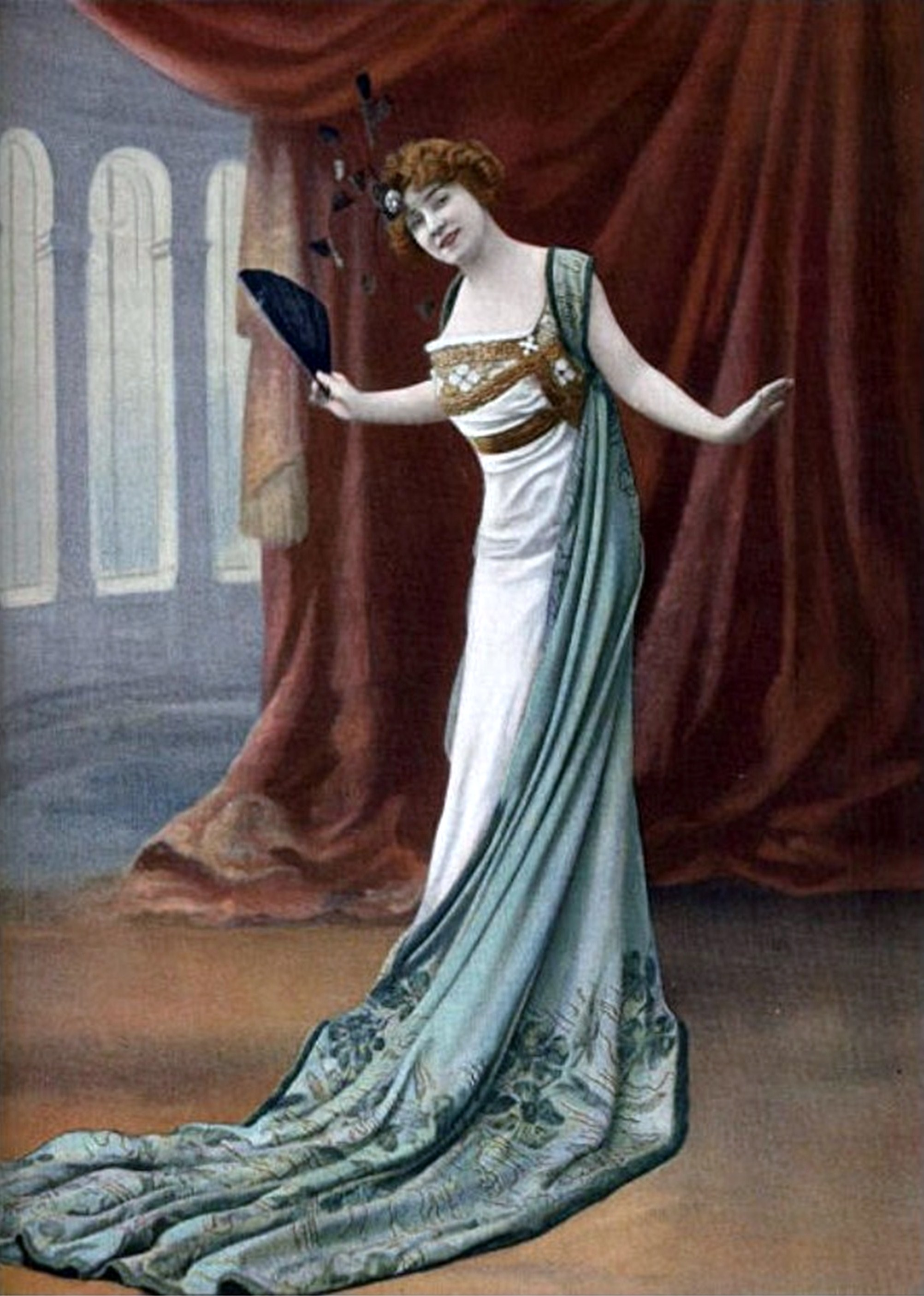 Amélie Diéterle is a French actress born in Strasbourg on February 20, 1871 and died in Cannes on January 20, 1941. She was legitimated in Paris in 1892 by Captain Louis Laurent, Knight of the Legion of Honor. Amélie Diéterle married in Vallauris on June 16th, 1930 with André Simon (1877-1965). Amélie Diéterle plays mainly at the Théâtre des Variétés in Paris during the Belle Époque. Photograph of the monthly illustrated magazine, The Theater, of the month of November 1909. Amelie Dieterle interprets the role of Suzette Bourdier and Youyou in the play Le Roi, in Paris.